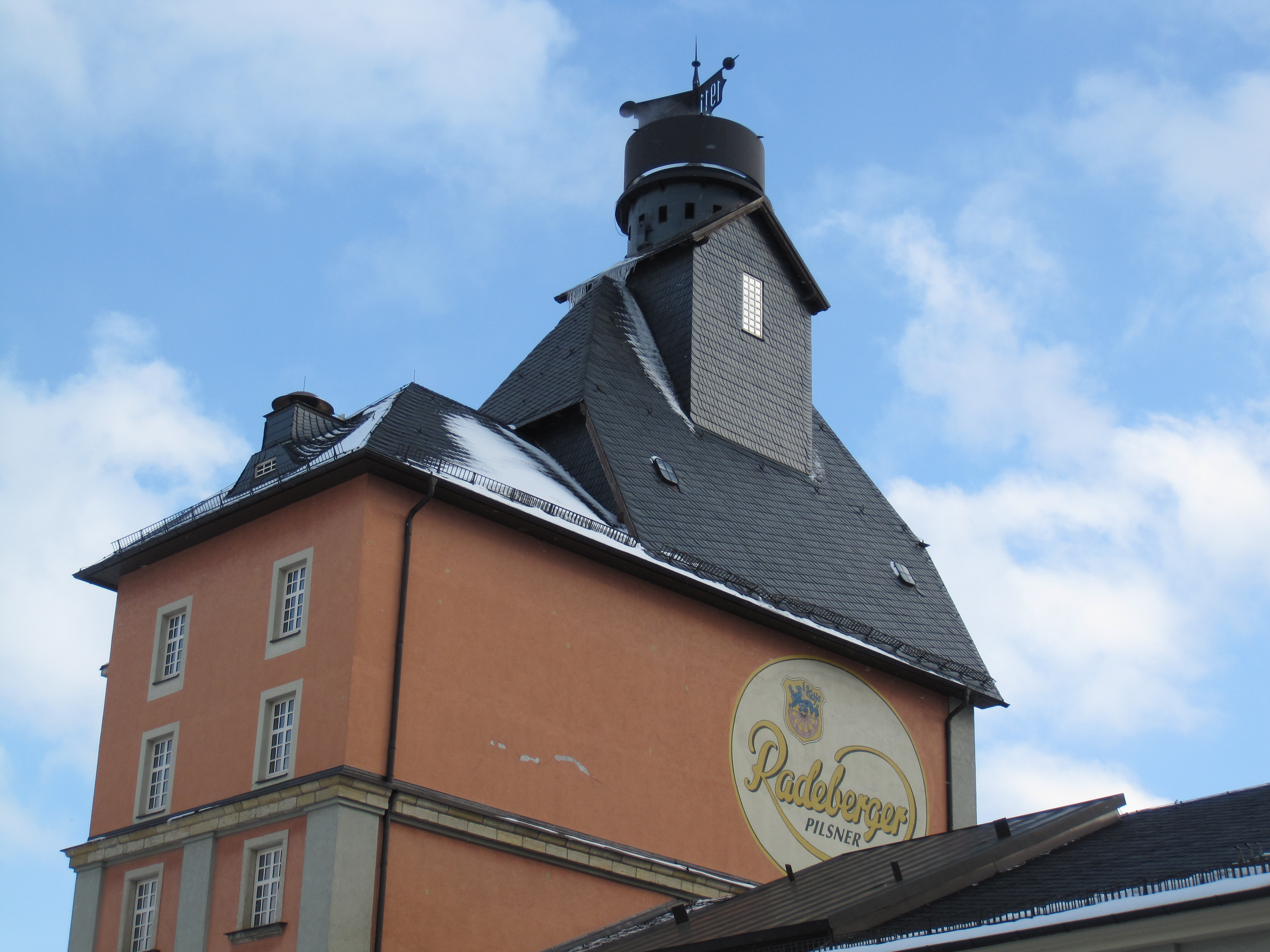 Radeberger old brewery house